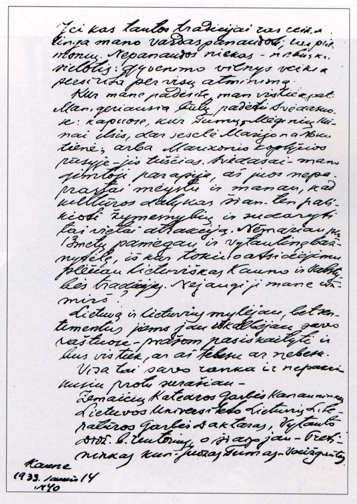 Last page of the last will of Juozas Tumas-Vaižgantas (1869-1933)